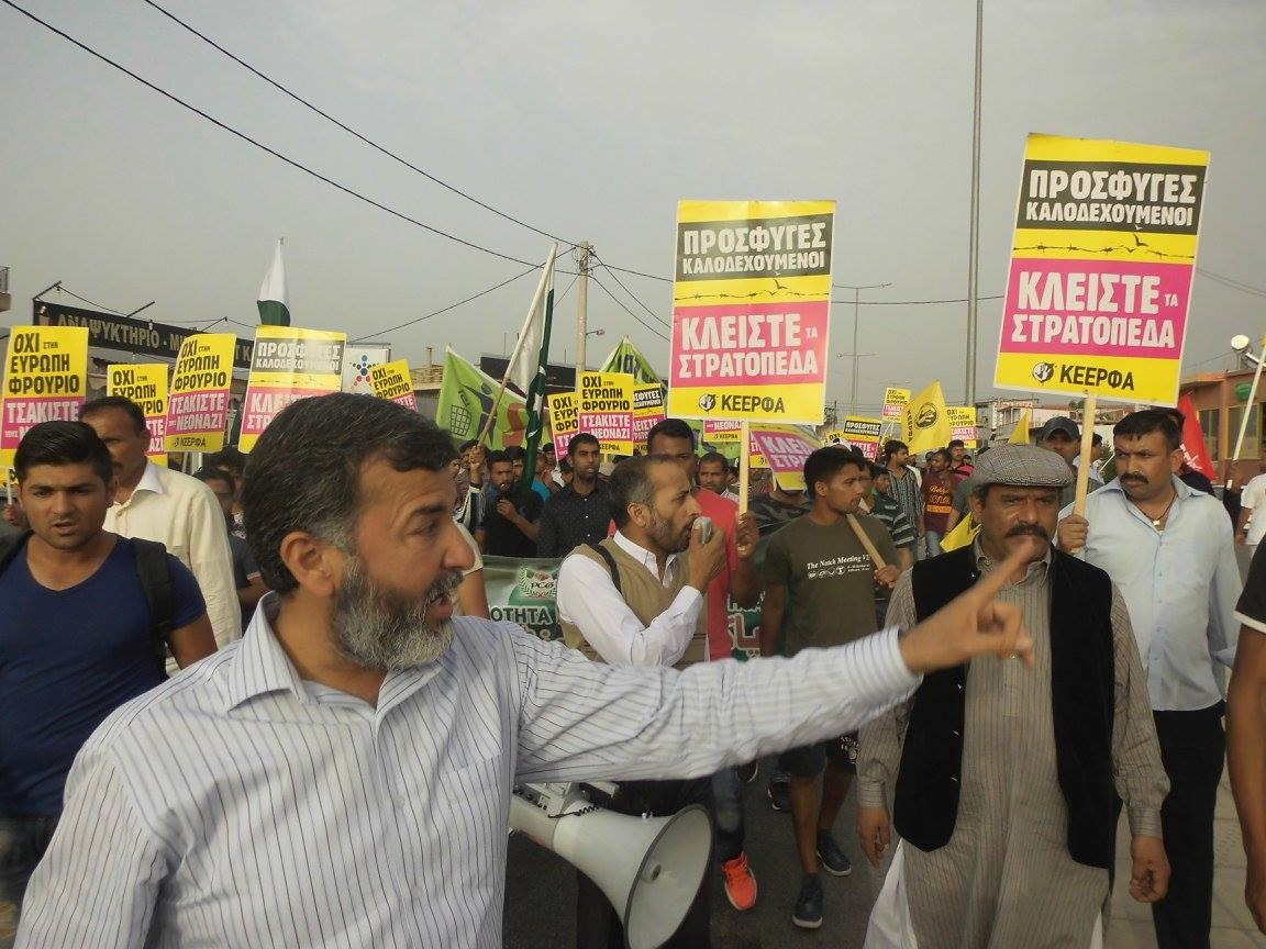 Javied Aslam Arain, President of the Pakistani Community of Greece, staging a protest with Pakistani migrants. They hold banners which read "beat the Neo-Nazis" and 'Close the Camps'